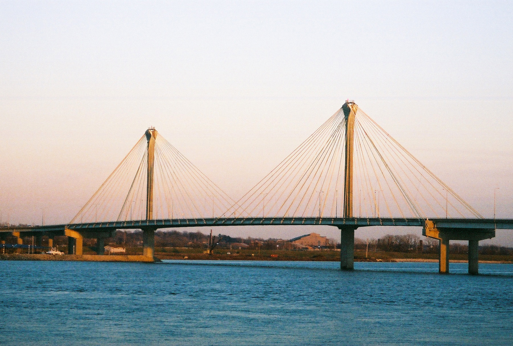 The Clark Bridge is a cable-stayed bridge which connects Alton, IL to West Alton, MO.